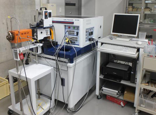 TorqueRheometer